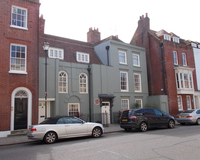 Buckingham House, Portsmouth. A plaque on the wall reads "In this house George Villiers, Duke of Buckingham was assassinated by John Felton, 23 August 1628"